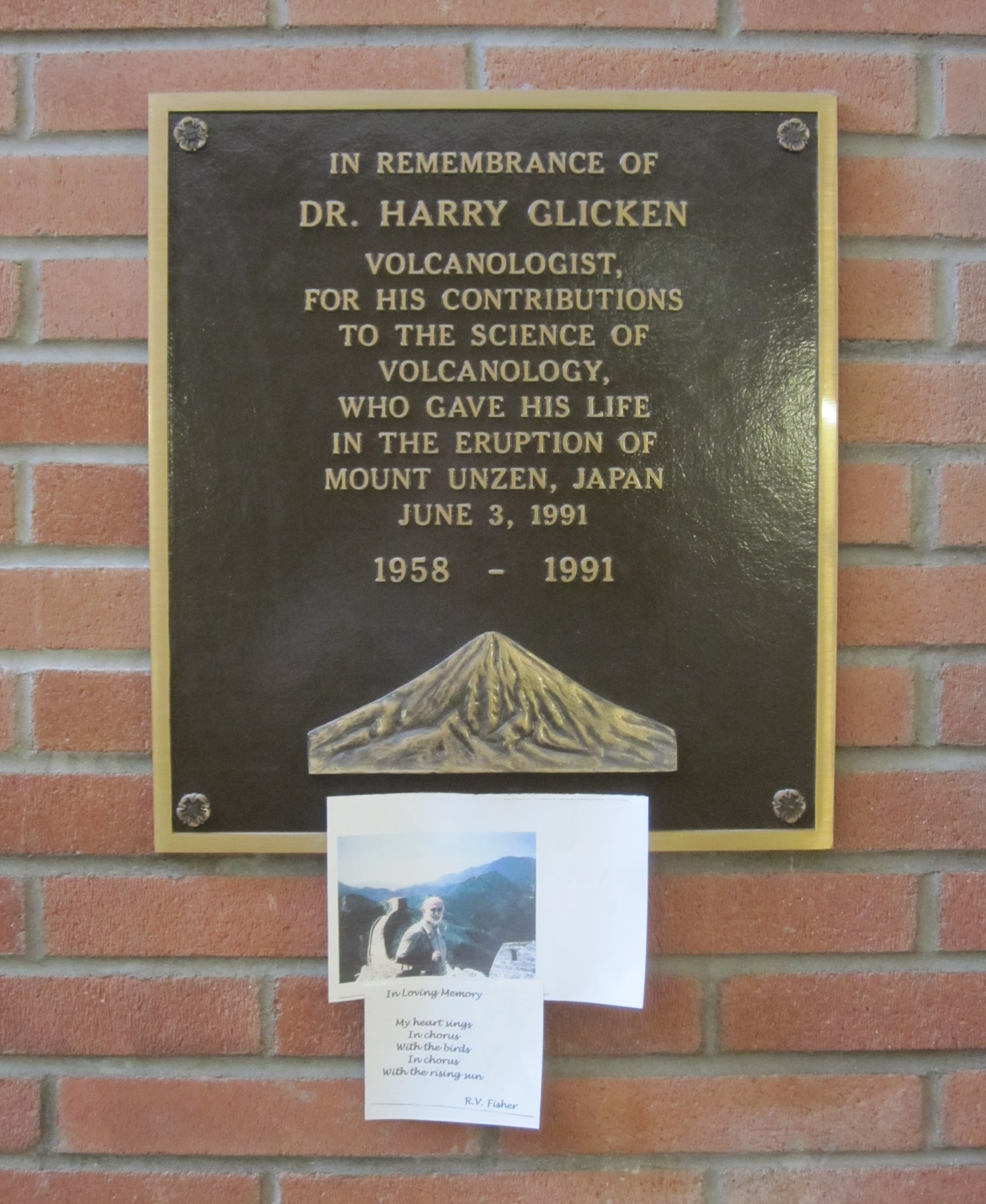 This plaque located in the Earth Science building at the University of California, Santa Barbara, is a memorial to the life and work of Dr. Harry Glicken